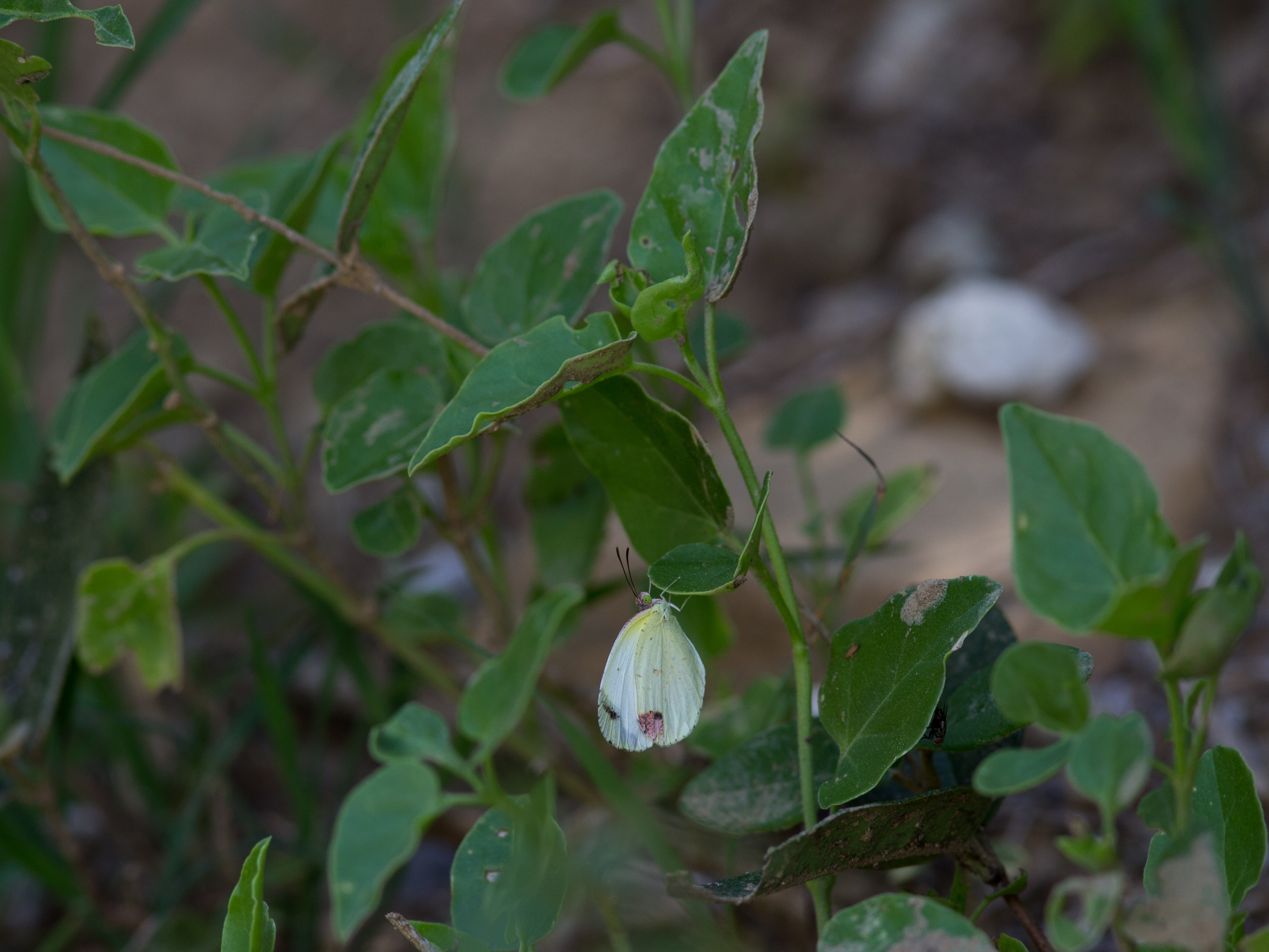 Eurema messalina (Shy yellow), municipality Niceto Pérez, Guantánamo, Kuba